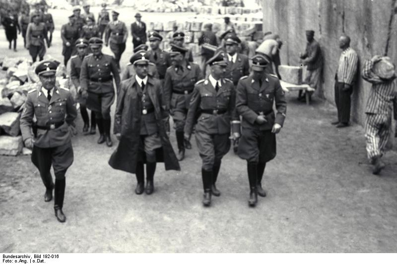 Information added by Wikimedia users.English (translation of German caption): Concentration camp Mauthausen, visit of Heinrich Himmler .. Austria. Himmler with officers of the Waffen-SS in the Gusen or Mauthausen stone quarry. [Note: While not identified in the archival source, the man in the long coat immediately to the left of Himmler is the acting Gauleiter of Carinthia {Kärnten}, Franz Kutschera / Mike Miller, Axis Biographical Research, 16.03.2011] — Preceding unsigned comment added by 173.171.137.129 (talk • contribs) 19:12, 16 September 2011 (UTC)